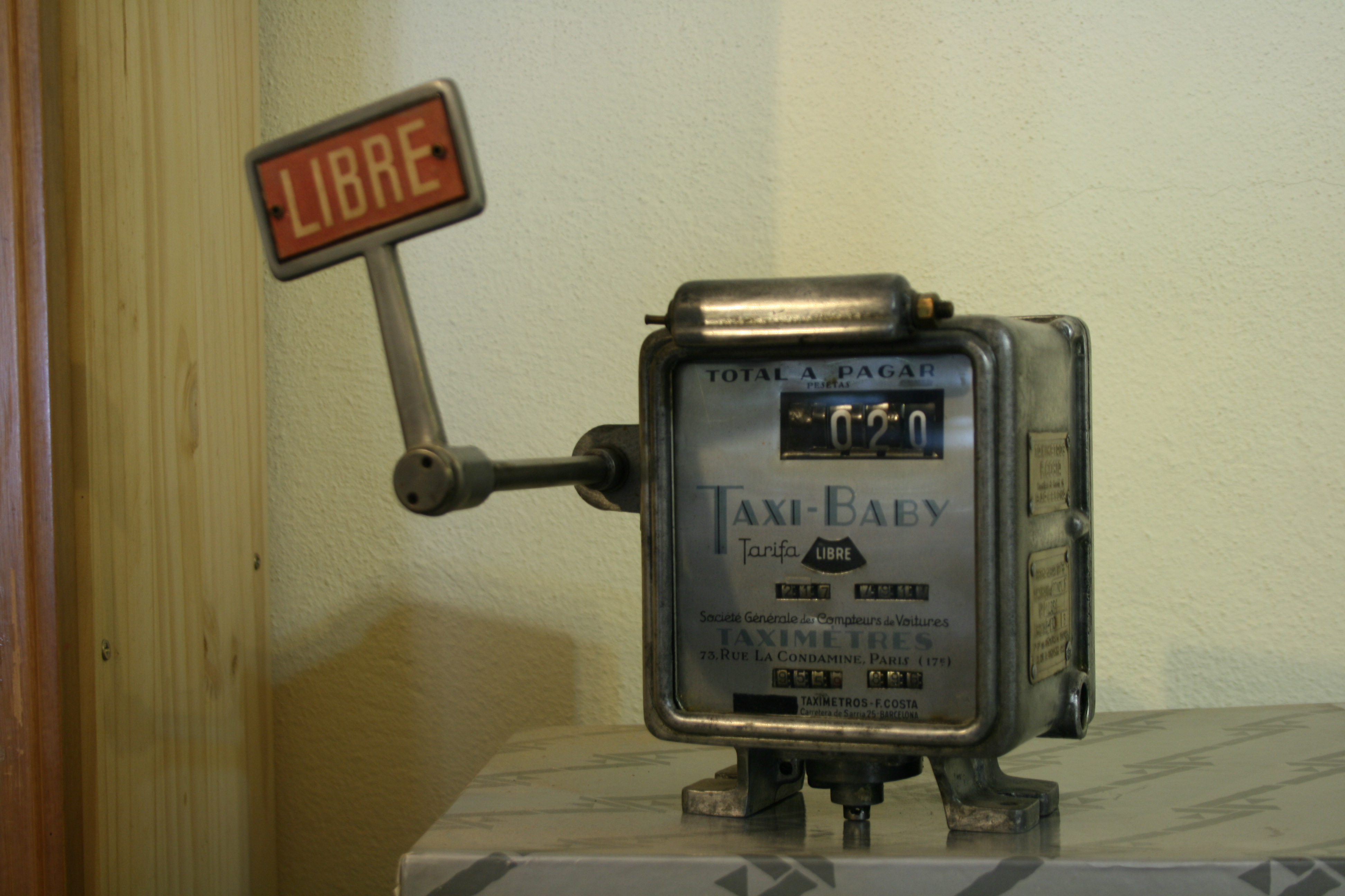 Taximeters